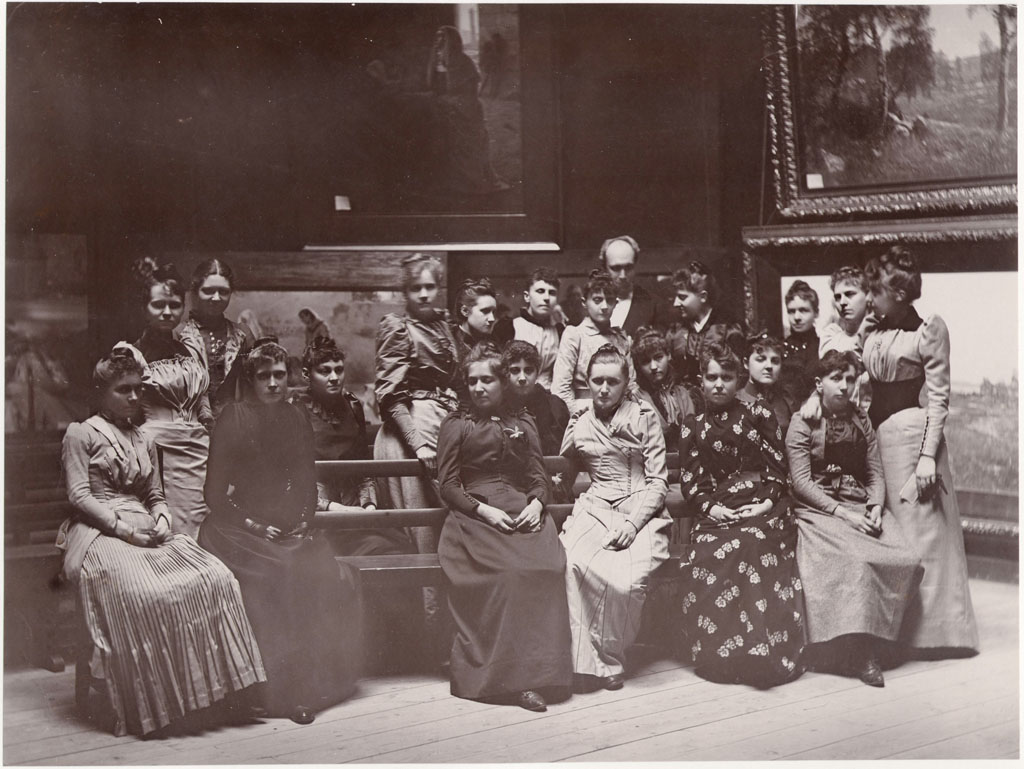 Female art students at the Royal Swedish Academy of Fine Arts. Kvinnliga elever vid Konstakademien. Parish (socken): Stockholm Province (landskap): Uppland Municipality (kommun): Stockholm County (län): Stockholm Photograph by: Carl Curman Date: c. 1890 Format: Albumen print Persistent URL: Read more about the photo database (in english)